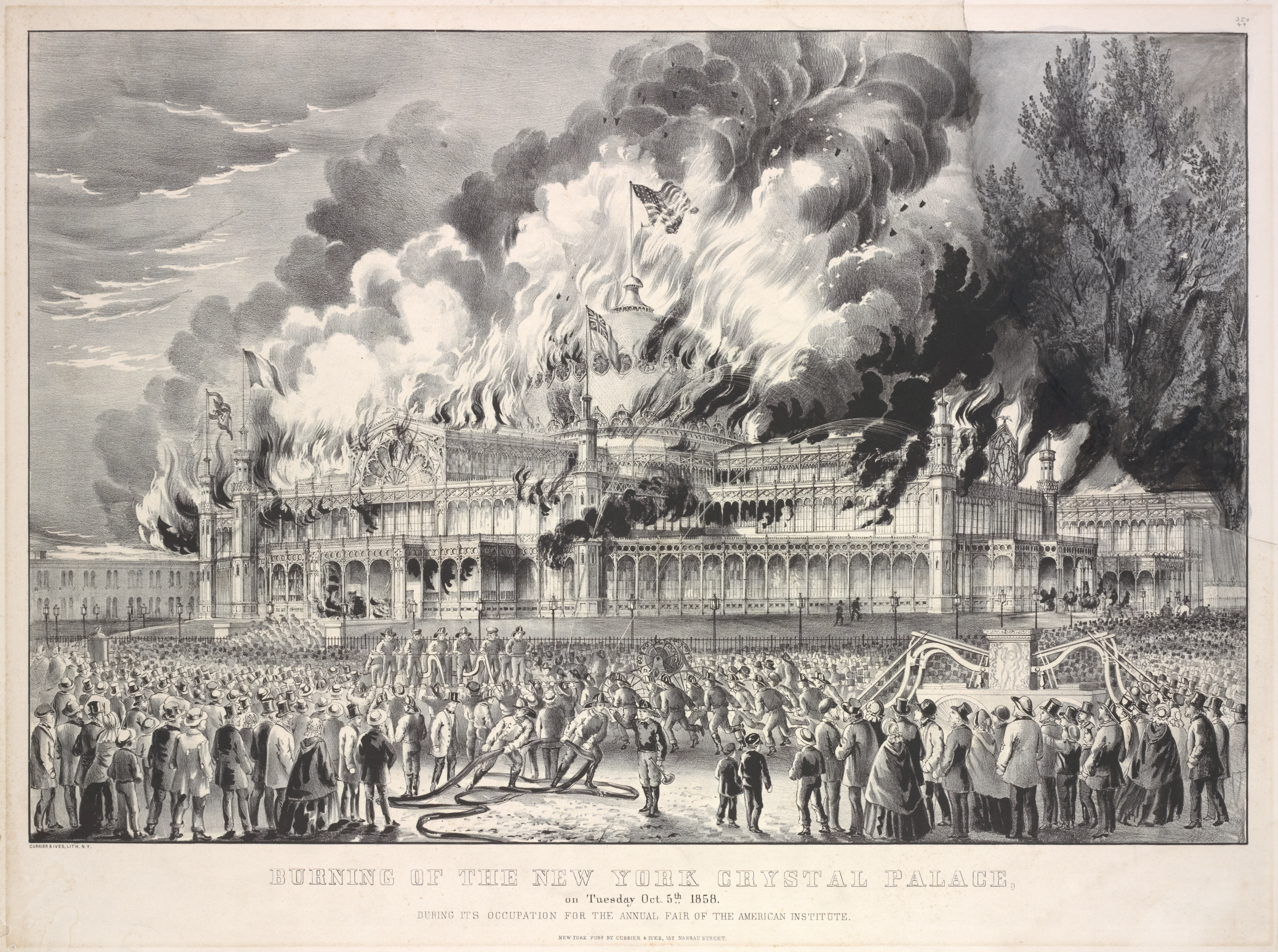 Citation/Reference: Eno 350++ Upper right corner missing and replaced with a charcoal drawing.